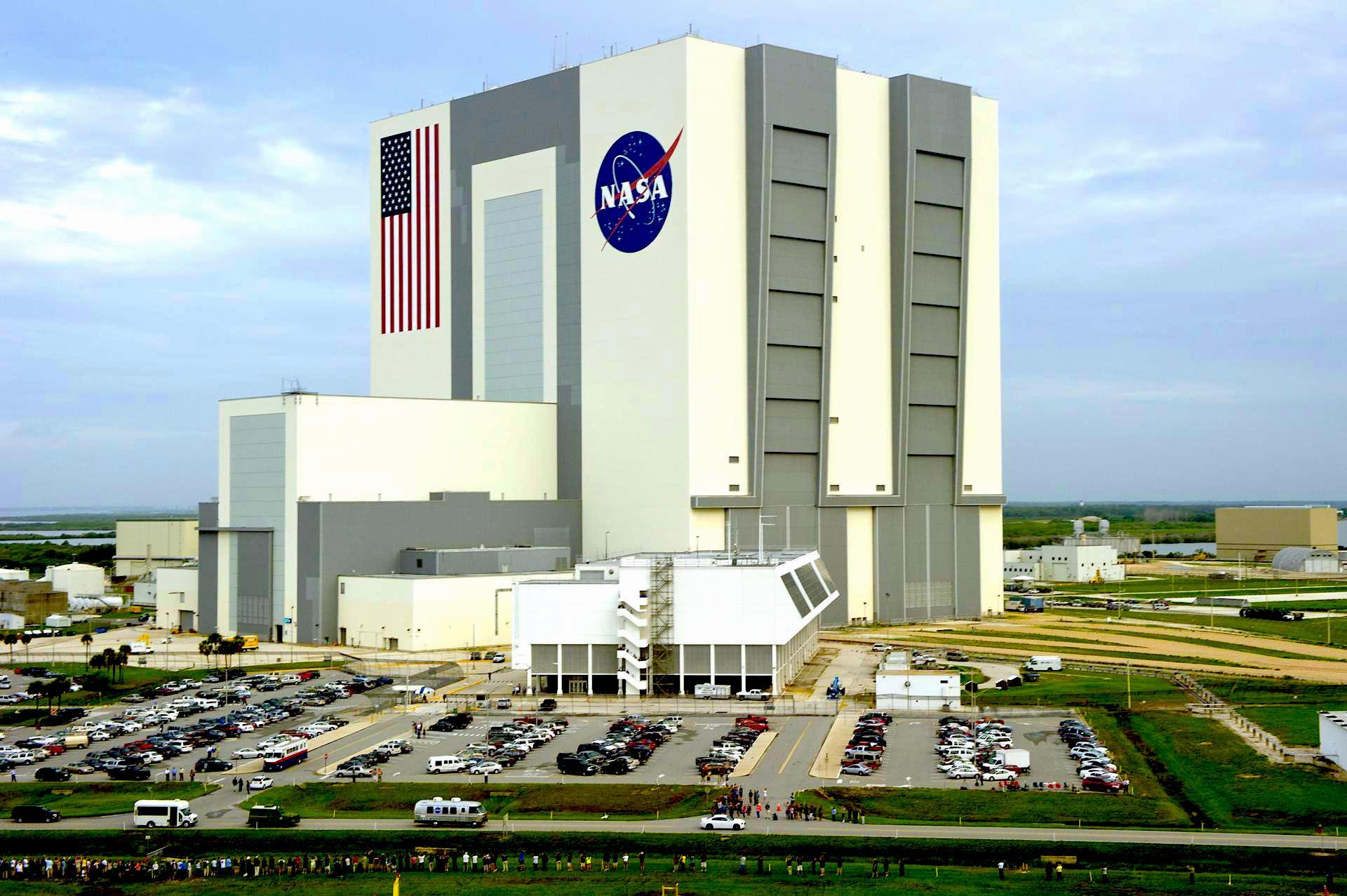 The exterior of the NASA Vehicle Assembly Building and Launch Control Center viewed from a NASA helicopter in the early evening in 2011